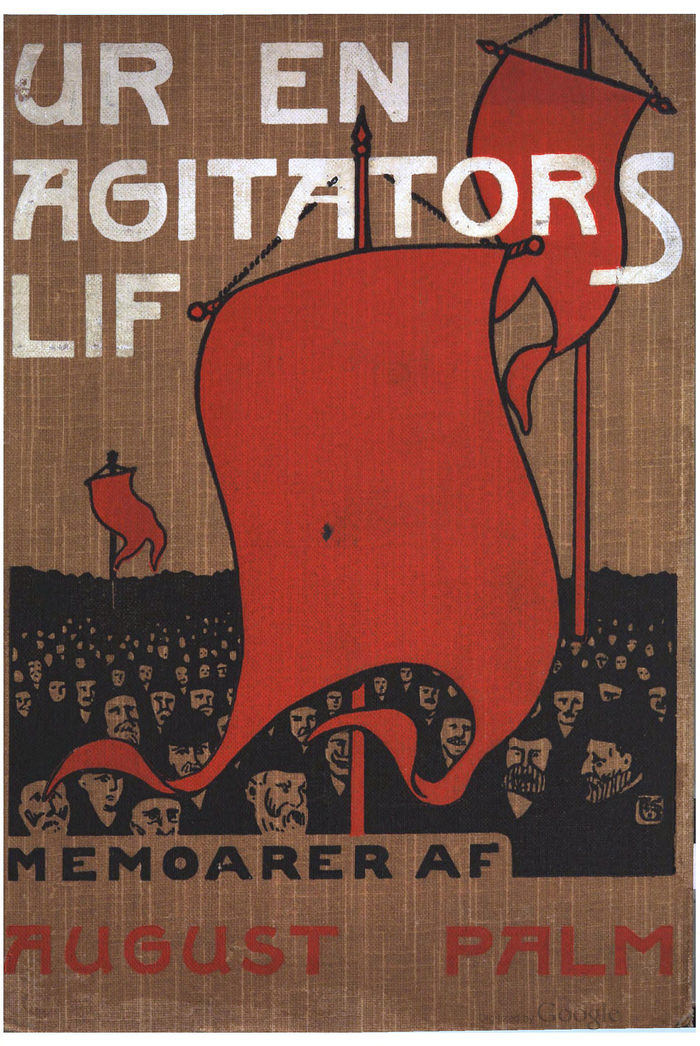 Ur en agitators lif by August Palm. Cover illustration